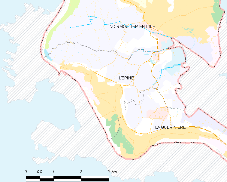 Map of French municipality L'Épine